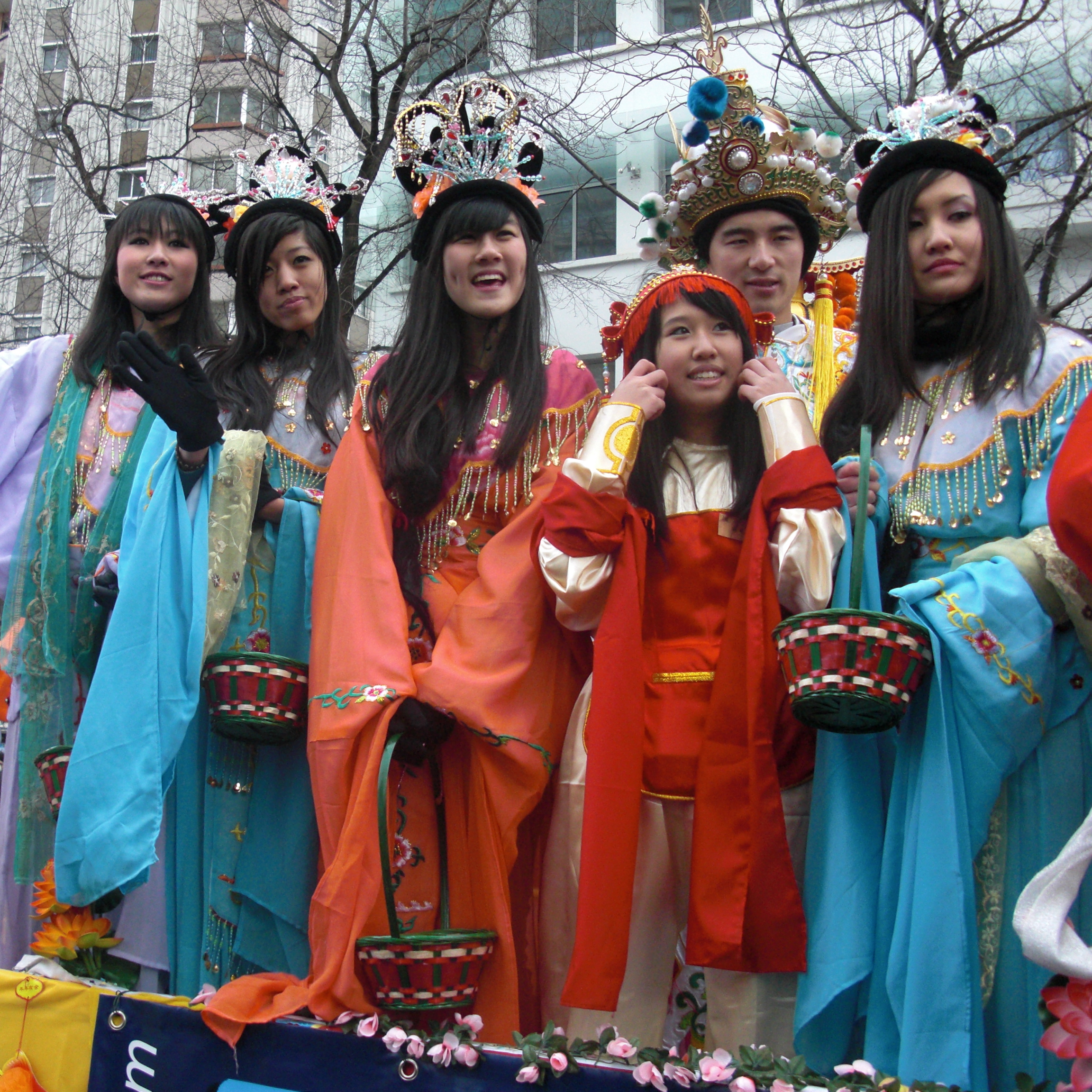 Chinese New Year